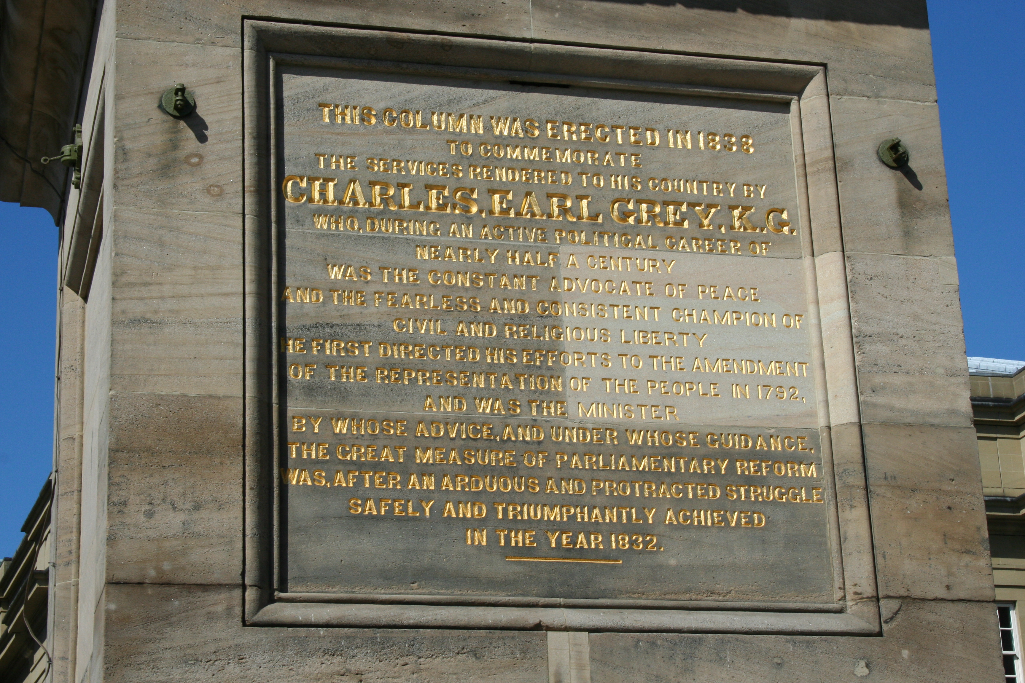 Inscription on monument to Charles Grey, 2nd Earl Grey.